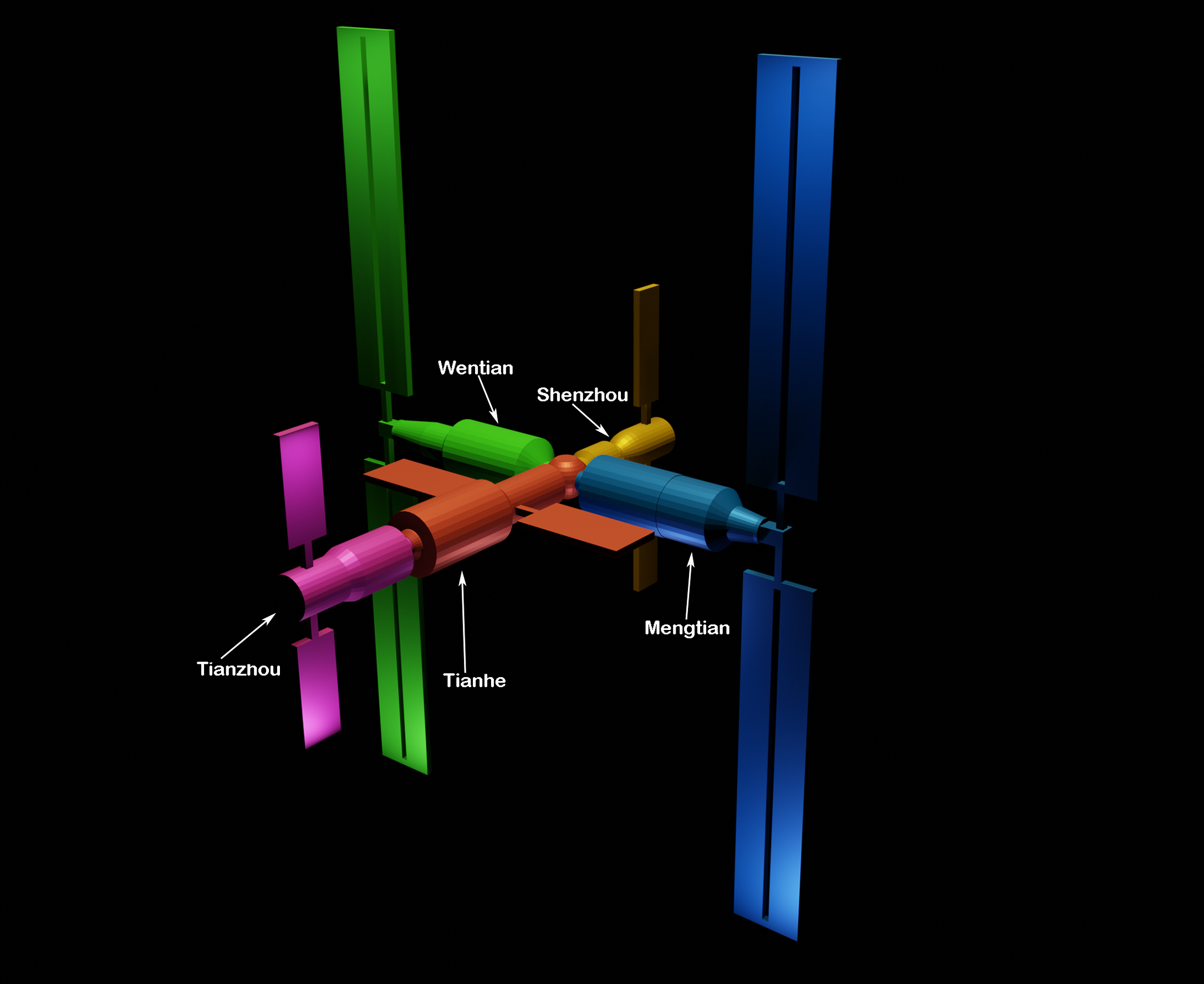 Scale rendering of the Chinese Large Modular Space Station. The dimensions of the modules were taken from File:Tianhe module.jpg. (for Tianhe), File:Mengtian module.png. (for Mengtian), File:Wentian Module.png. (for Wentian), File:Post S-7 Shenzhou spacecraft-fr.png. (for Shenzhou), File:Chinese large orbital station.png. (for Tianzhou)